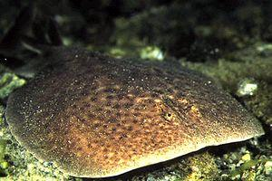 Picture of Torpedo marmorata